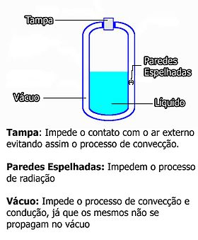 Diagrama de funcionamento da garrafa térmica